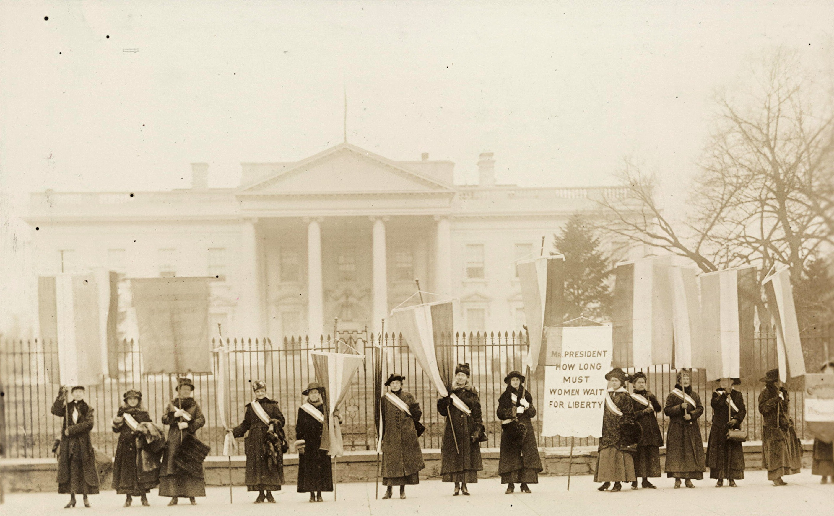 Photograph of fourteen suffragists in overcoats on picket line, holding suffrage banners in front of the White House. One banner reads: "Mr. President How Long Must Women Wait For Liberty". White House visible in background.